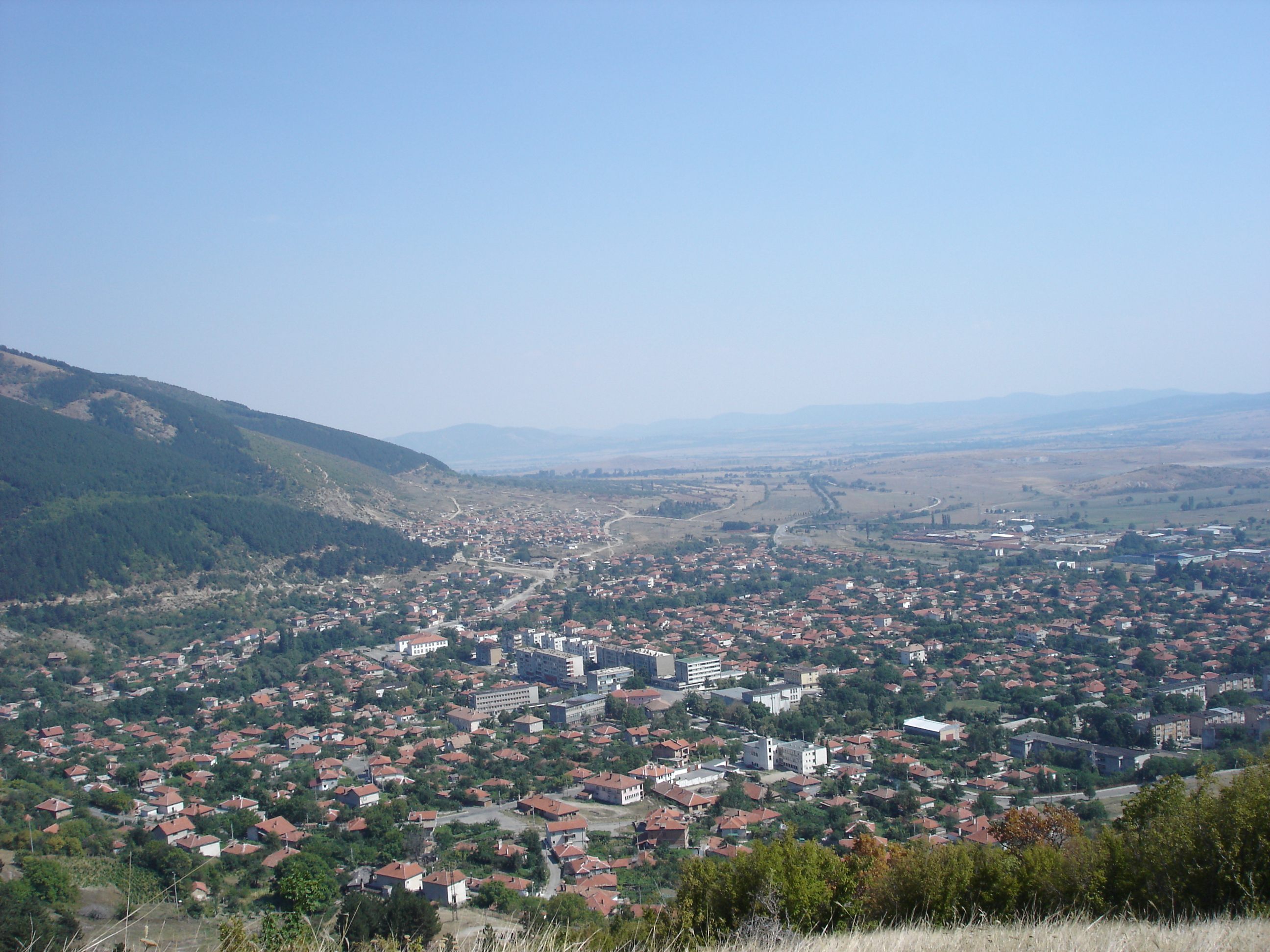 view over the town center of Tvardica, Bulgaria, taken in August 2006